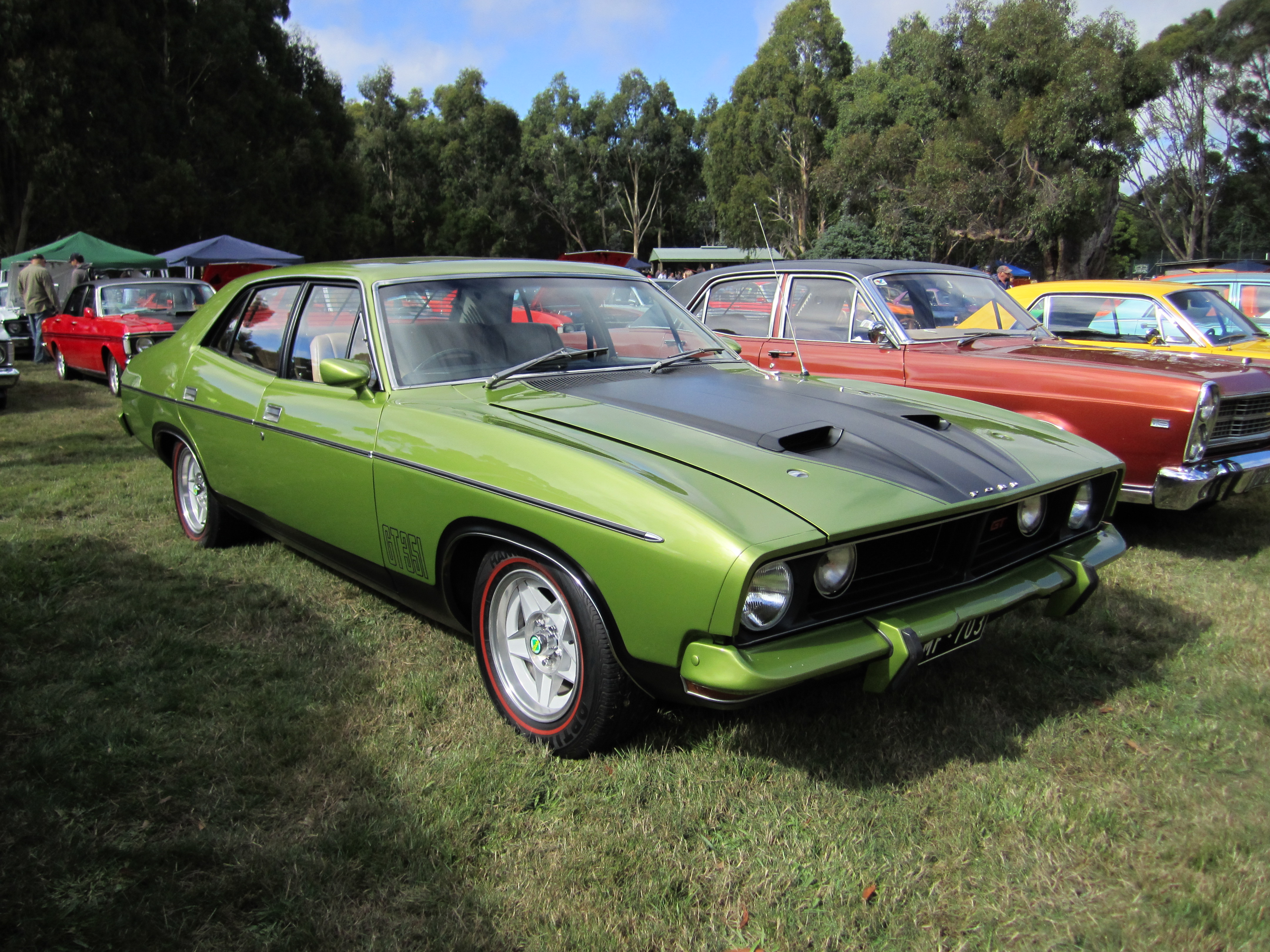 Built from Sept 73-July 76 Engine; 351 Cleveland 14 Sedans made in Frosted Lime Total of 1950 Sedans & 949 Hardtops made